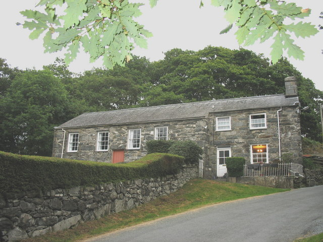 Capel Salem Chapel. A tiny rural chapel built for the a scattered farming and manganese mining community which was made famous by a painting of the congregation by the English painter Curnow Vosper. A copy of the painting can be seen on the living room wall of the chief engineer's house at the Welsh Slate Museum 296715.